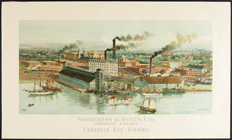 Gooderham and Worts Ltd., Toronto Canada, Canadian Rye Whiskey.